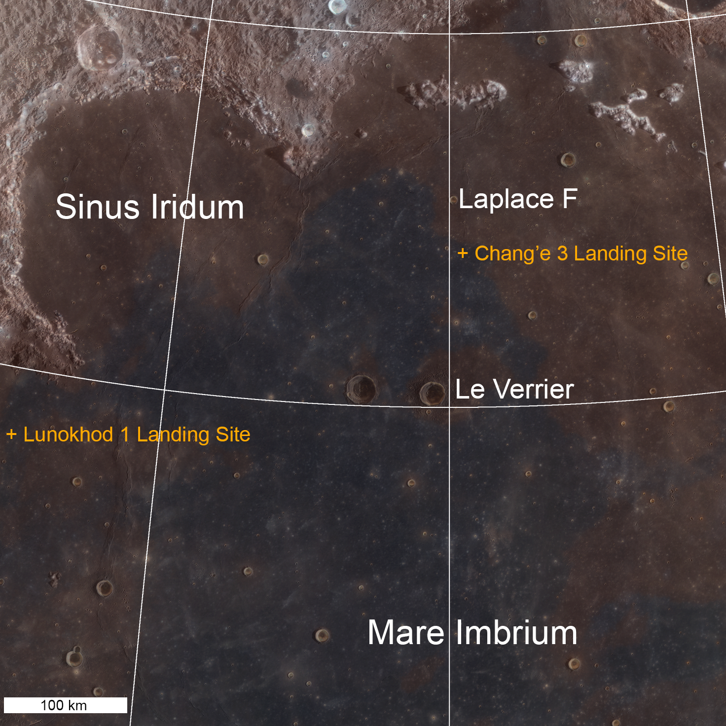 Image of Sinus Iridum/Mare Imbrium taken by Lunar Reconnaissance Orbiter Camera. (LROC WAC color - 689 nm, 415 nm & 321 nm - overlain on WAC sunset BW image.) Chang'e 3 and Lunokhod 1 landing sites shown. Note the proximity of the Chang'e 3 landing site to a contact between red and blue maria.